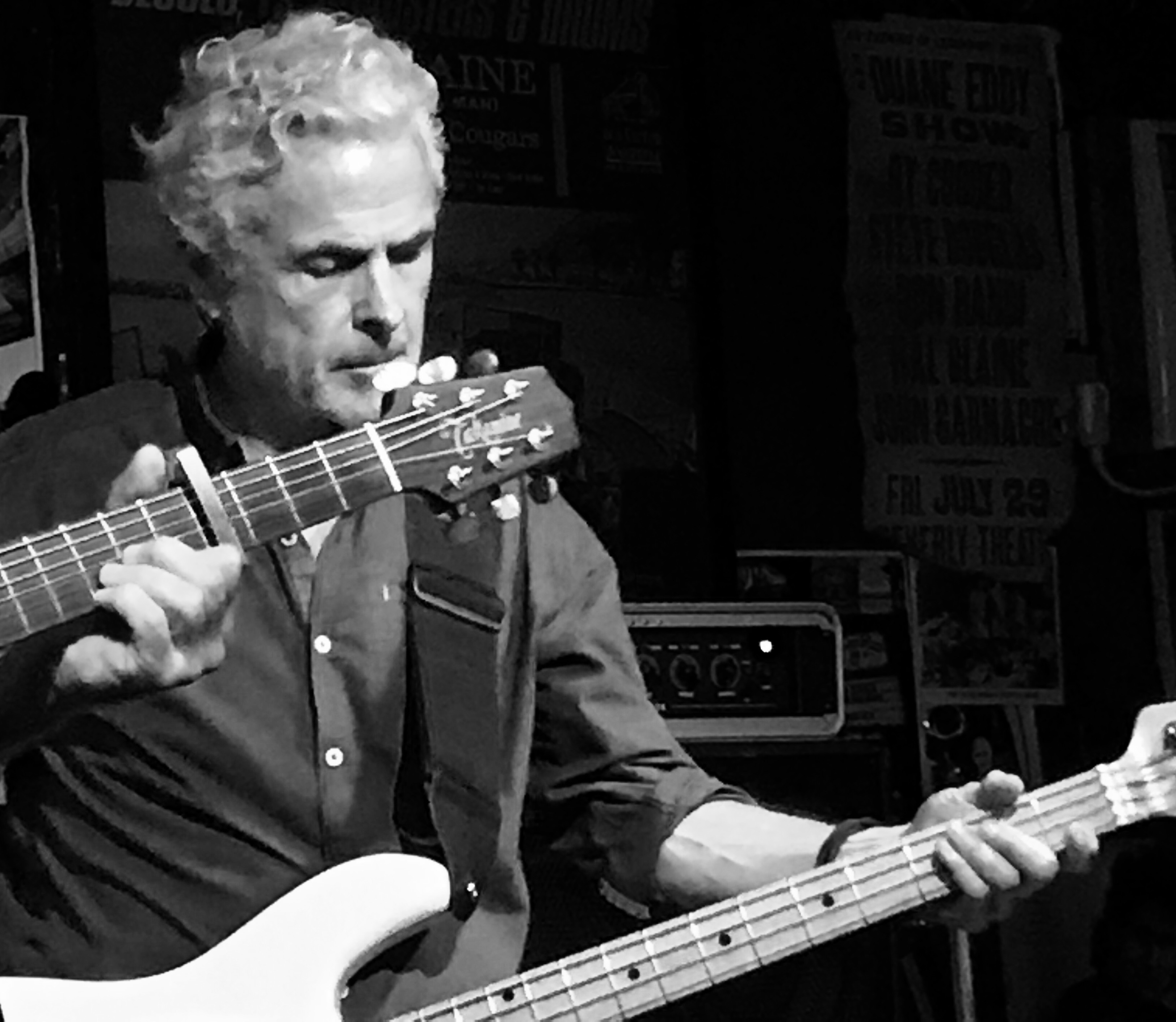 Photo of John Trivers, Bassist, performing with James Carrington at the Baked Potato in Los Angeles, CA.